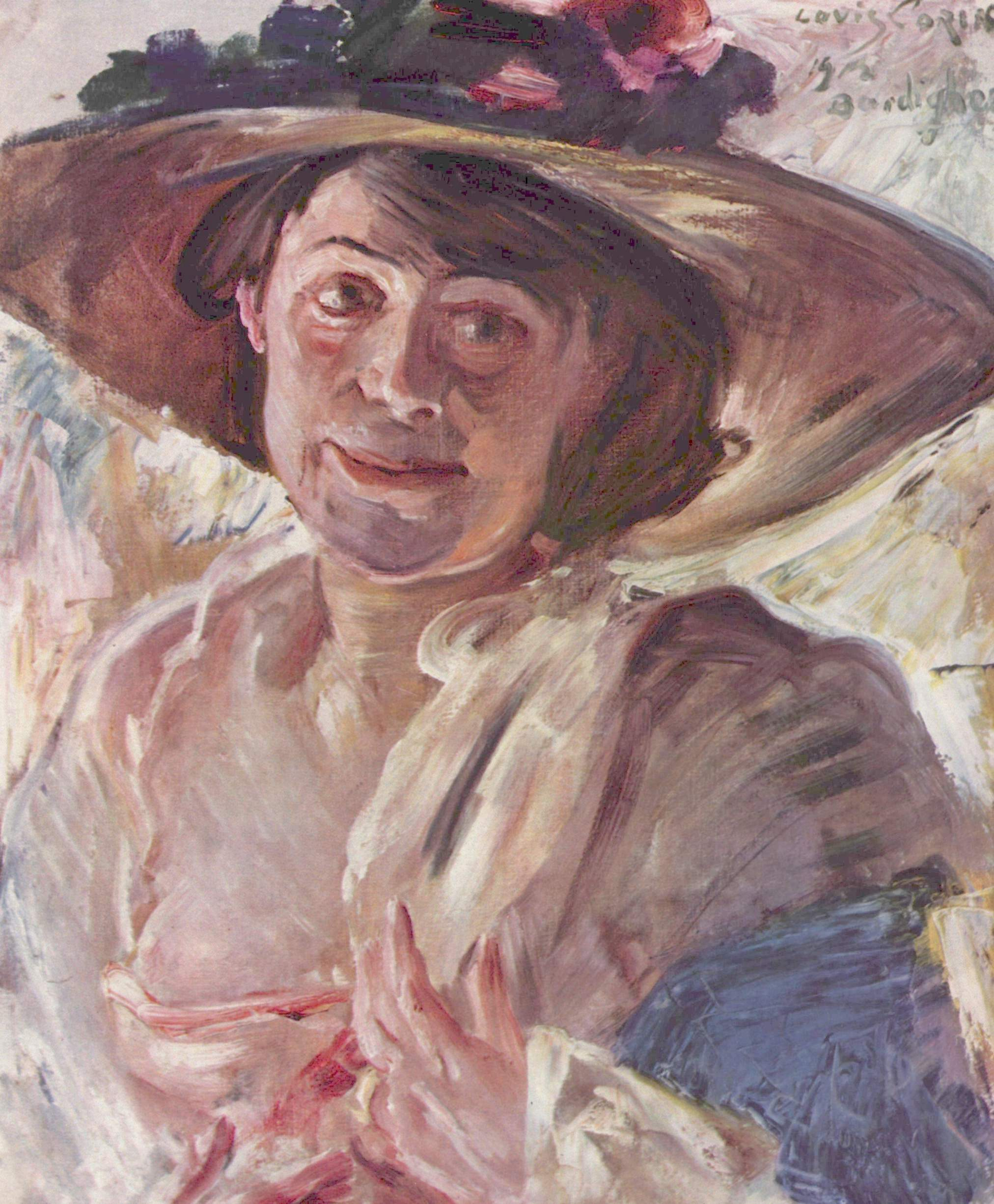 Portrait of Charlotte Berend-Corinth